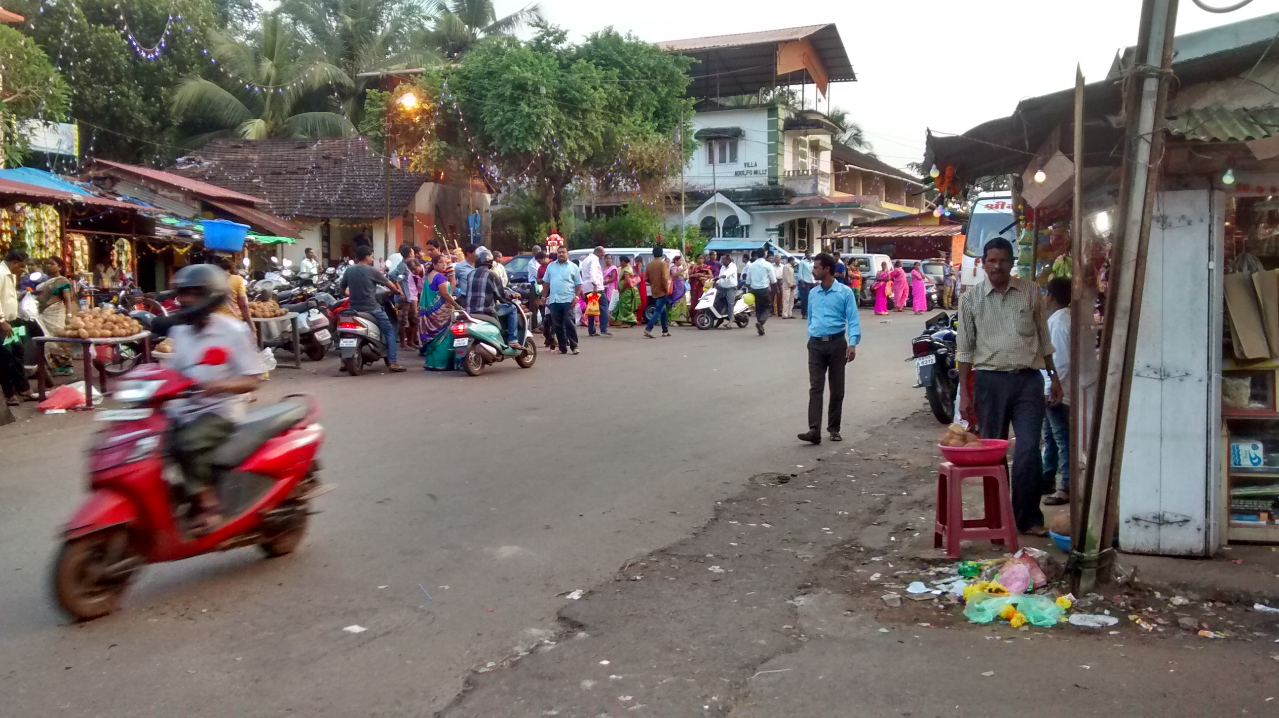 Shiroda market